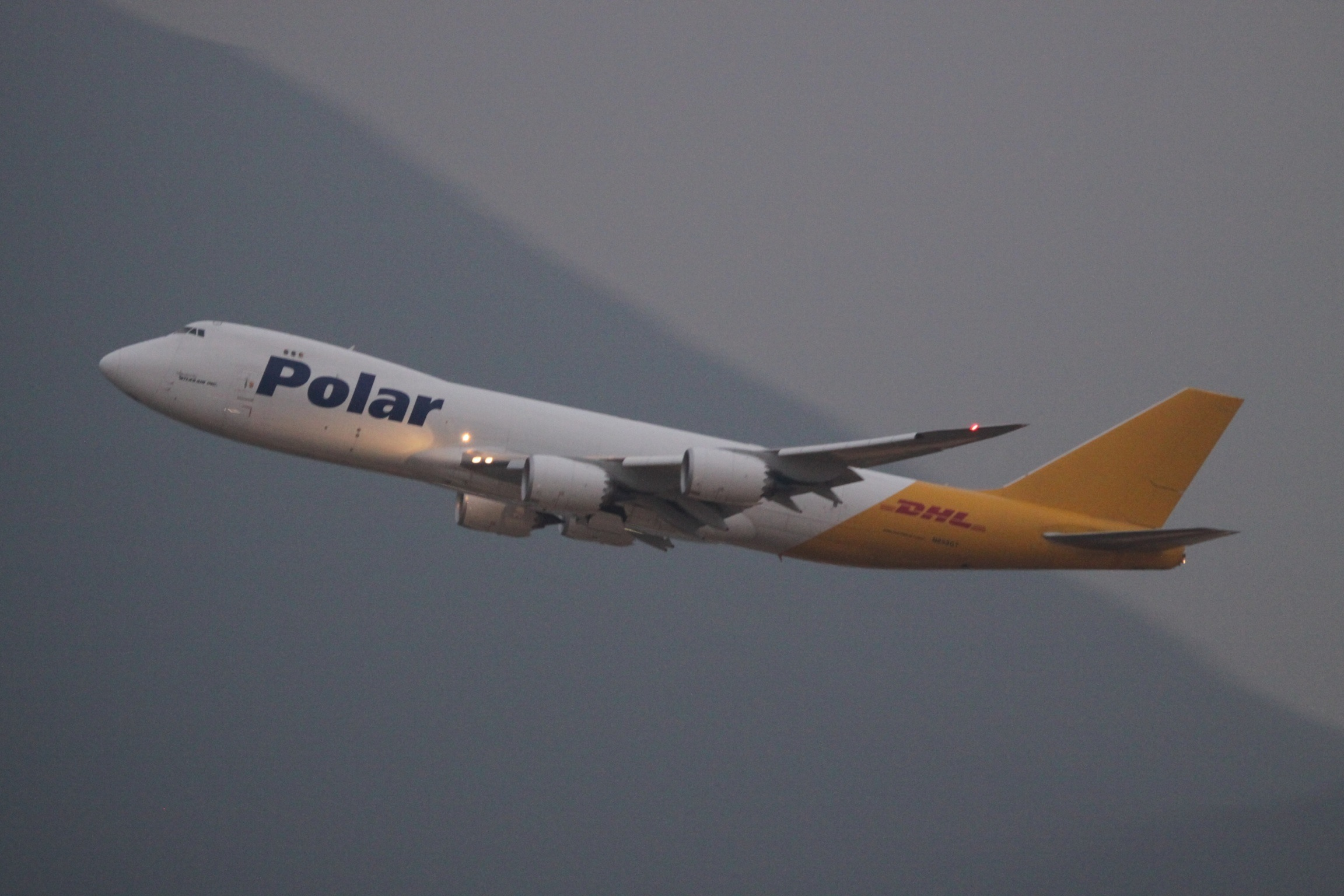 At Hong Kong Chek Lap Kok